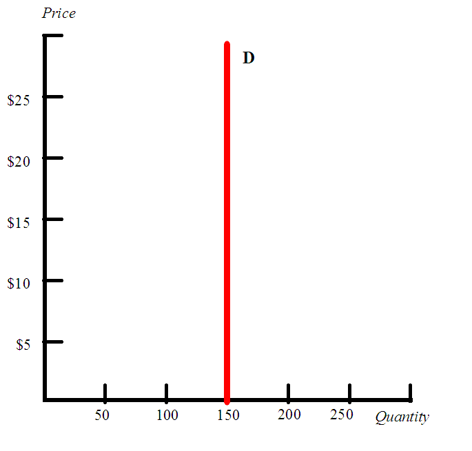 Graphical representation of a Perfectly Inelastic Demand situation